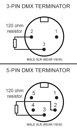 DMX-terminator diagram for 3-pin and 5-pin XLR connectors